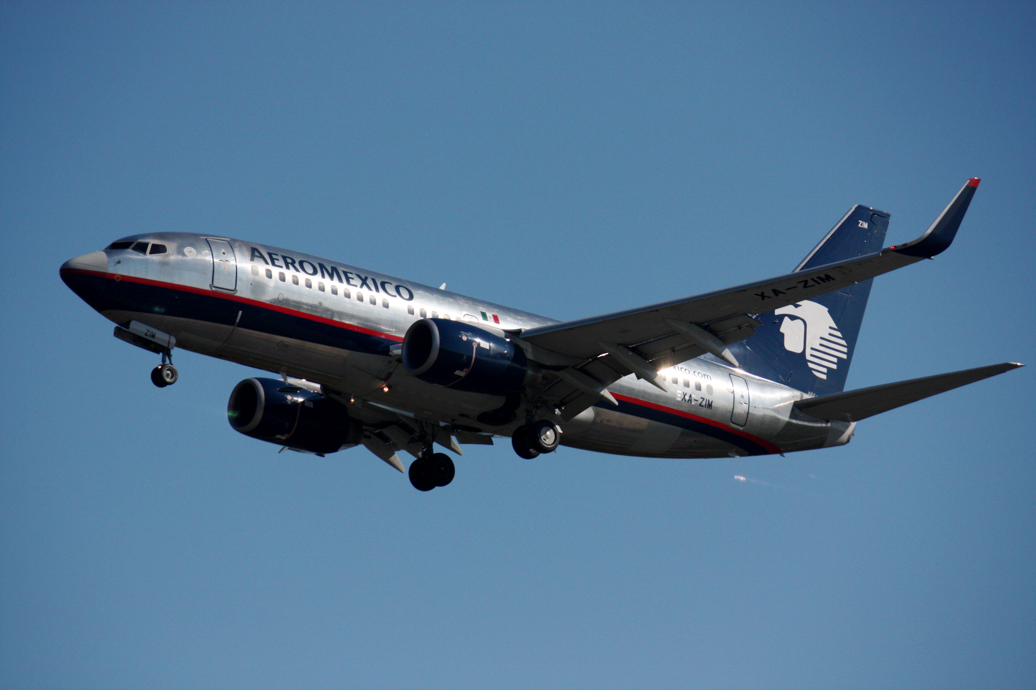 An Aeroméxico Boeing 737-752 landing at Vancouver International Airport